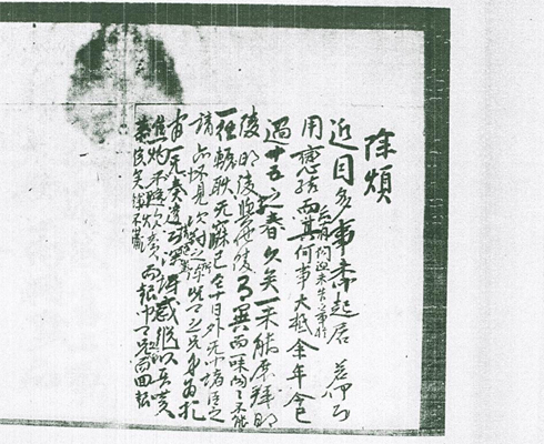 Letter of Crown prince Sado of Joseon (Sado gived his father-in-law Hong Bonghan)